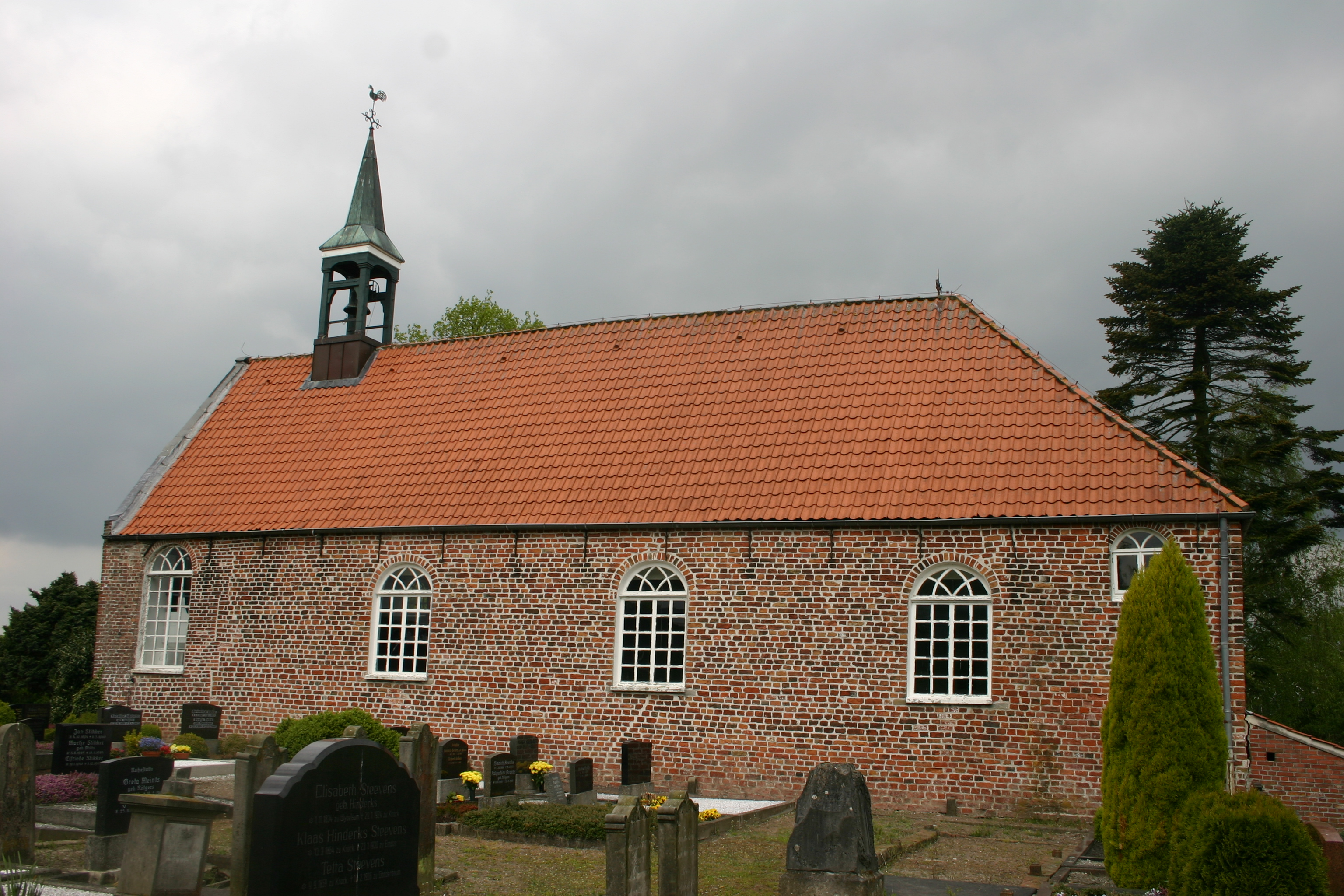 Historic church in Wybelsum, Emden, East Frisia, Germany